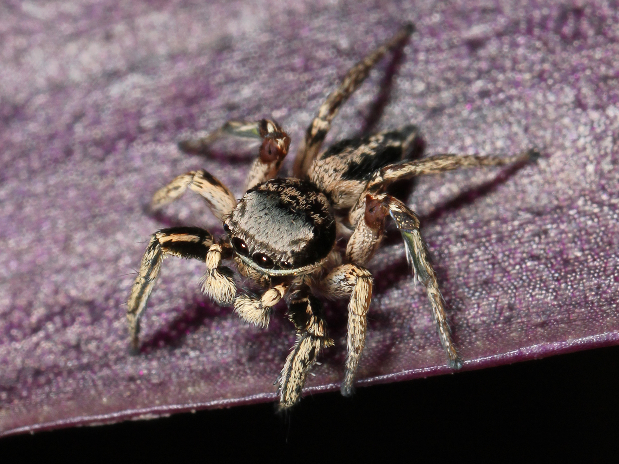 Adult male Habronattus mexicanus jumping spider Collected: February 2, 2011, 11:30am, swept from grass and brush Location: Between Southern Highway and Riversdale, Stann Creek District, Belize Habitat: Pine and palm savannah